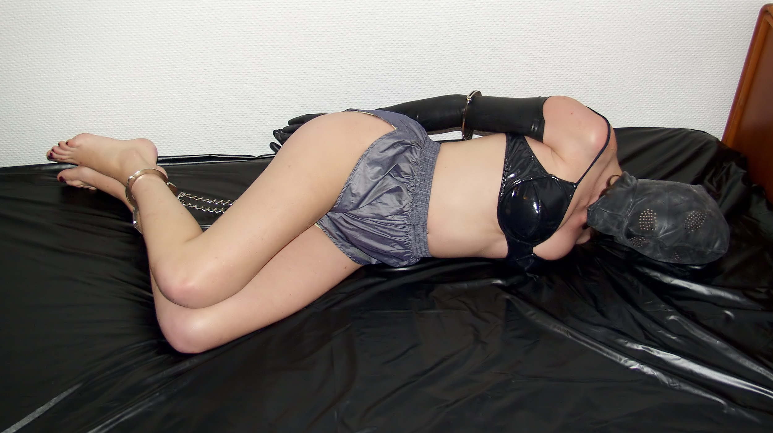 Woman in handcuffs and bondage hood